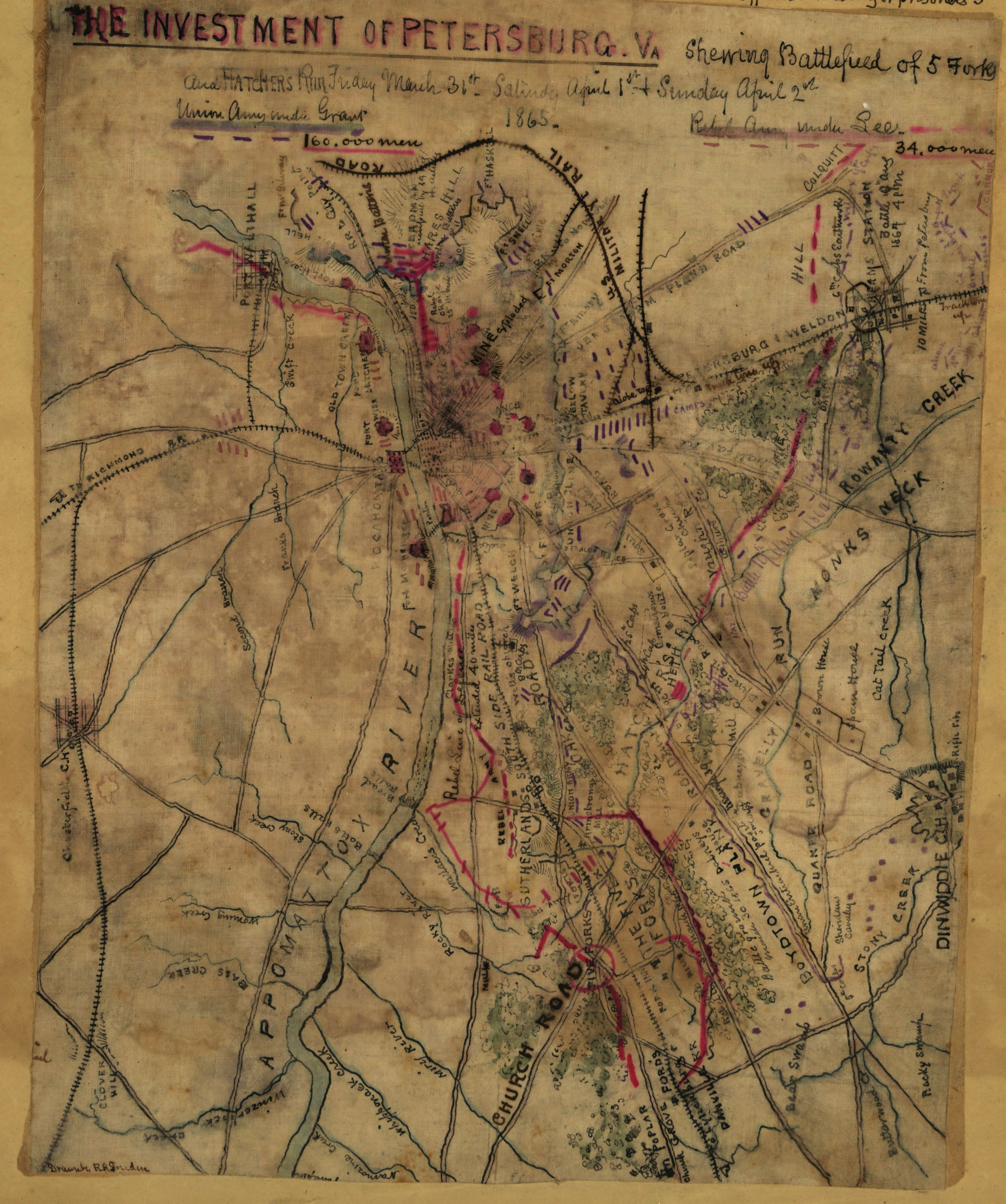 Shows the area surrounding Petersburg on the Appomattox River with all major transportation lines noted. Union forces under Grant are opposed by Lee's Confederates. Five Forks is to the left of the image; Port Walthall to the upper right: Ream's Station is in the lower right; and Dinwiddie Court House is at the bottom center.